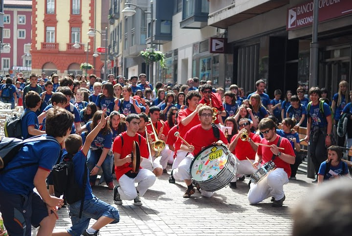 Txaranga music band in Eibar, Basque Country.